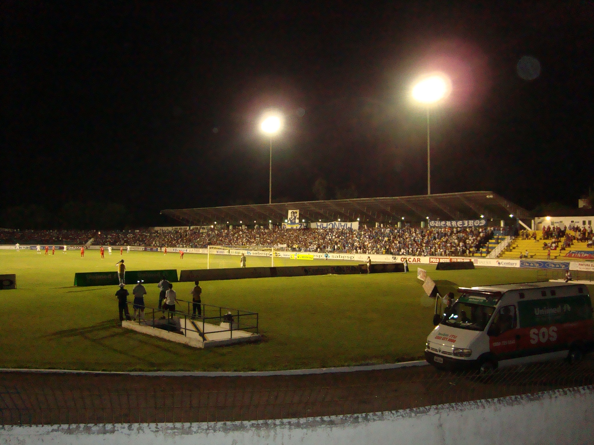 Martins Pereira stadium at night, on April 14th 2010, during a match between São José EC and Guaratinguetá LTDA. The game finished in a draw (1x1).